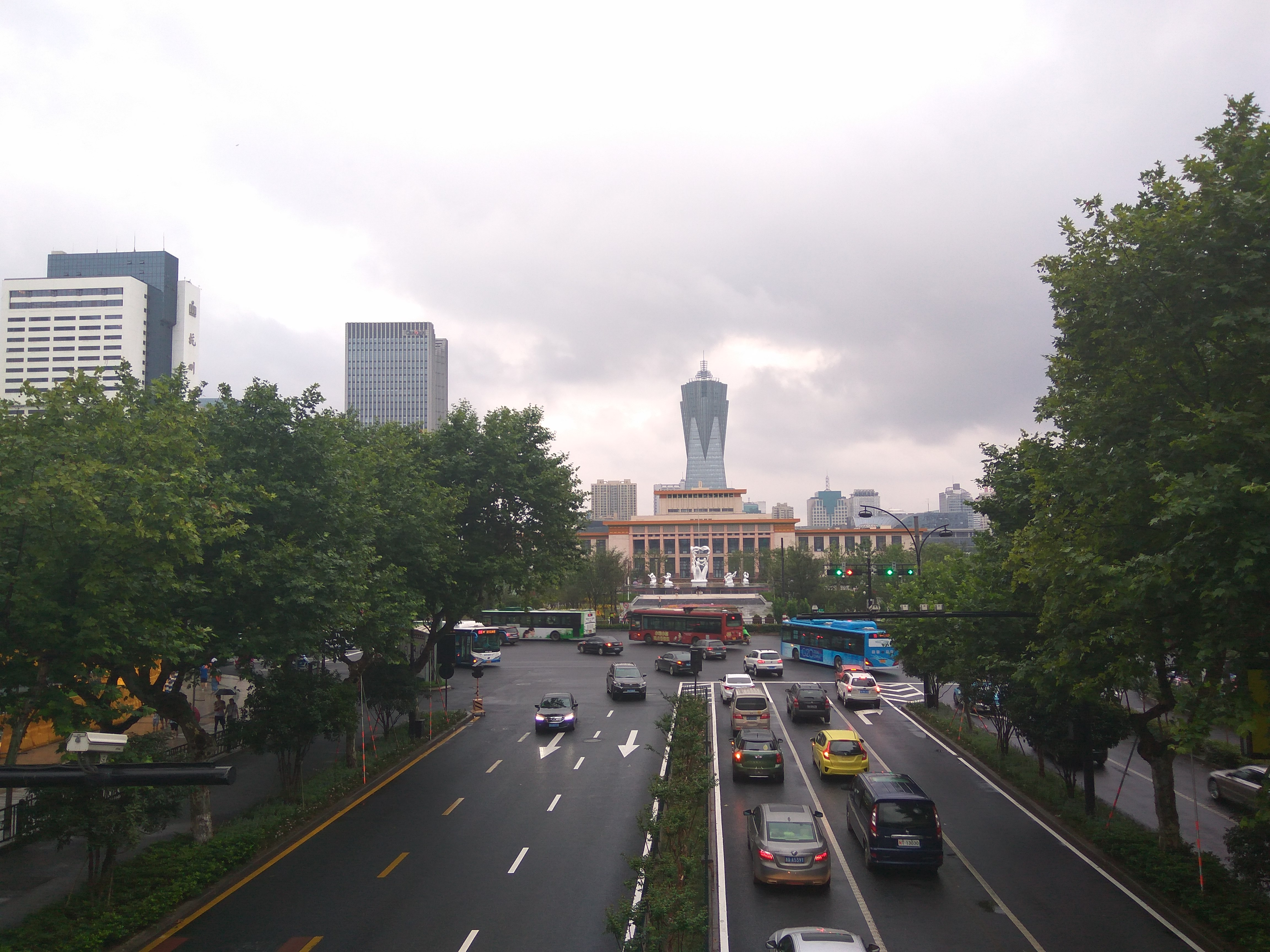 201607 Zhejiang exhibition museum and tech with Yanan Rd